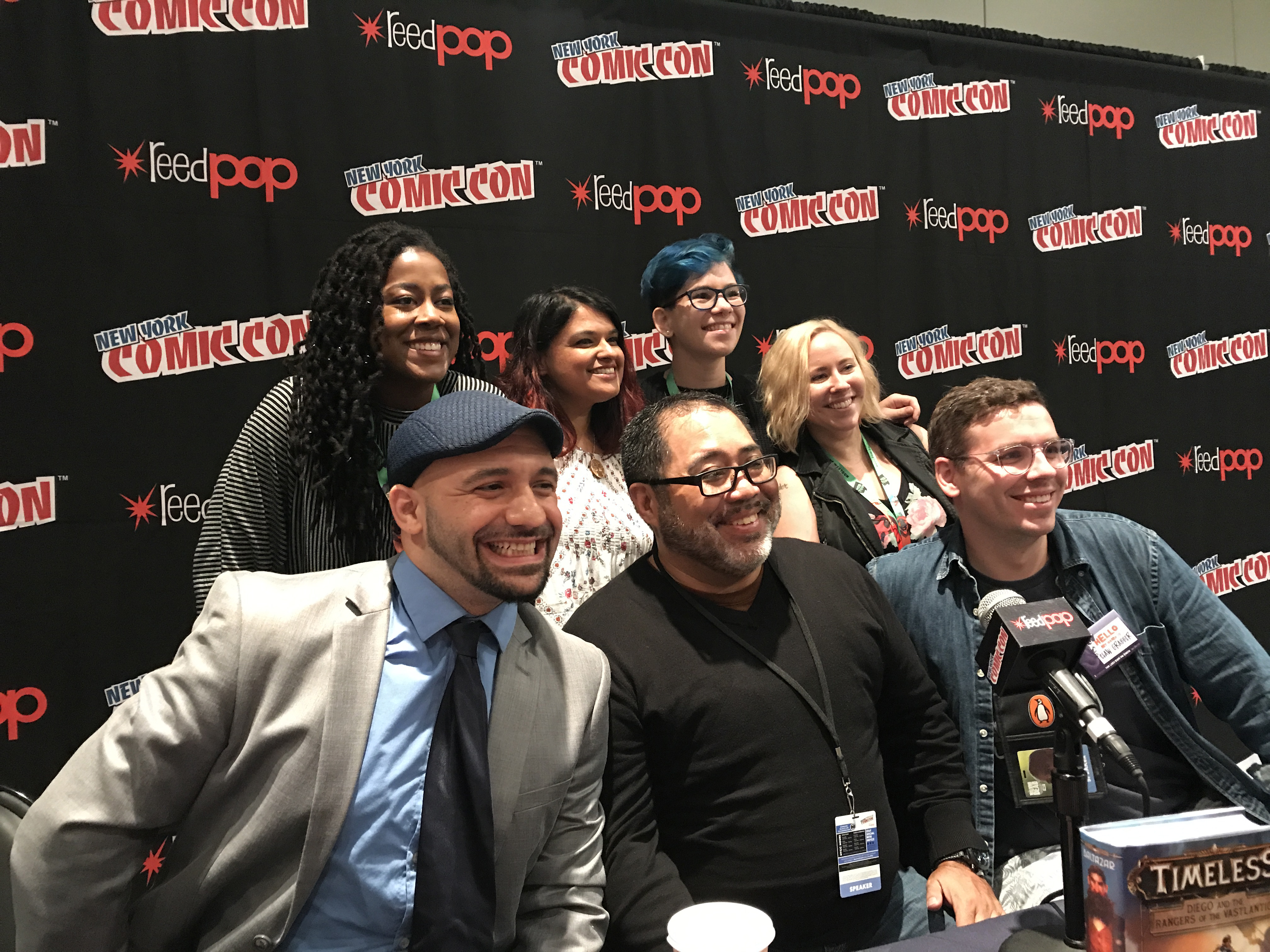 Fantasy authors at the "A Fantastic Assortment of Fantasy" panel discussion at the Jacob K. Javits Convention Center in Manhattan on Sunday, October 8, 2017, Day 4 of the 2017 New York Comic Con. Back row: from left to right: Tomi Adeyemi, Nidhi Chanani, Molly Ostertag, and Emily Asher-Perrin, who moderated the panel. Front row, from left to right: Daniel José Older, Armond Baltazar, Max Brallier. This photo was created by Luigi Novi. It is not in the public domain, and use of this file outside of the licensing terms is a copyright violation.